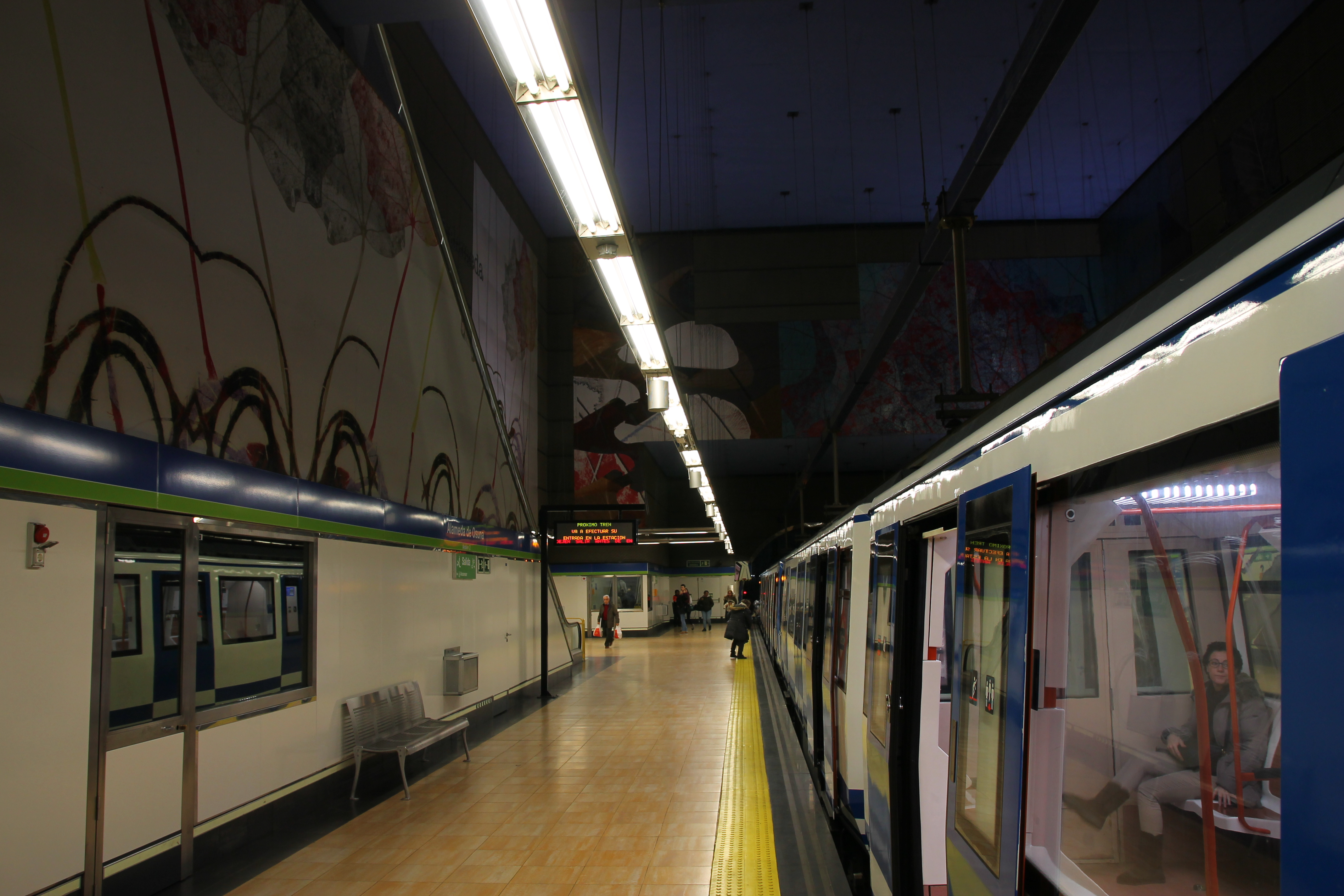 Estación de Alameda de Osuna